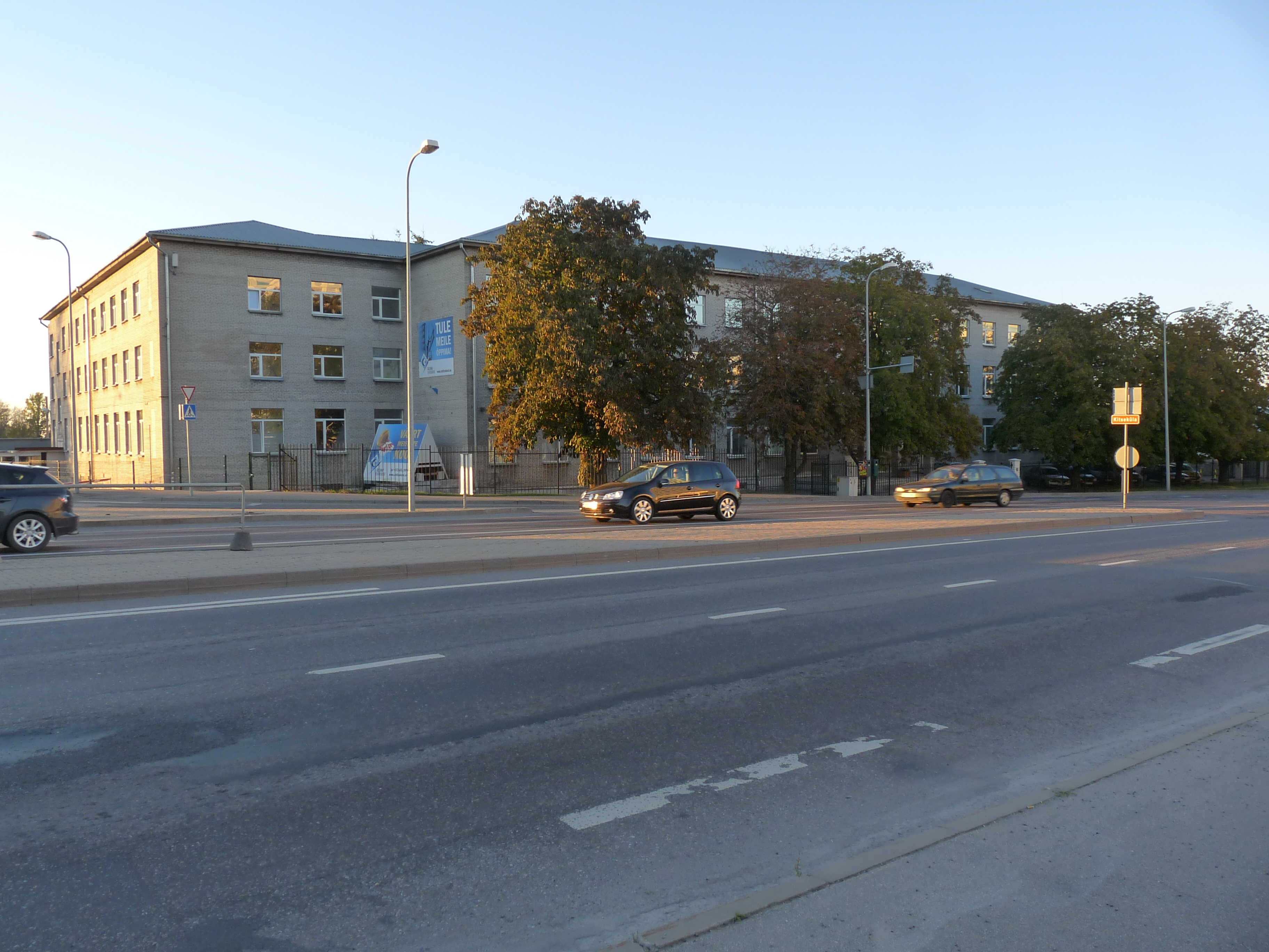 Tallinna Ehituskool (Tallinn building vocational school). Vocations: Woodworker Internal furnish Electrician (up to 1000V) Brick/stone/concrete construction worker Furniture servicing tech Wood and stone construction repairman House painter Carpenter